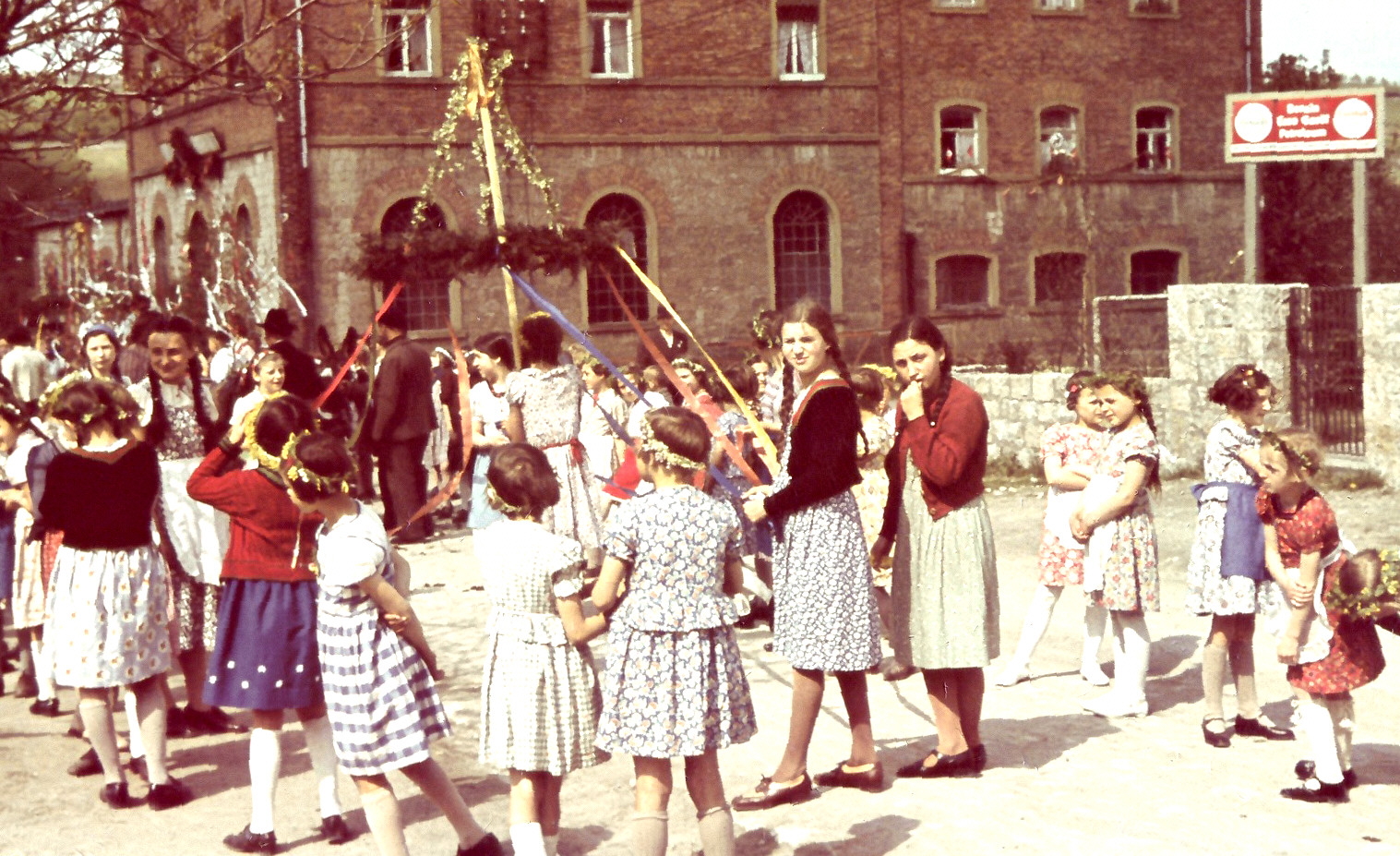 Ochsenfurt, Germany: Children waiting for a festival parade to start, 1930s. (Maypole in Bavaria).